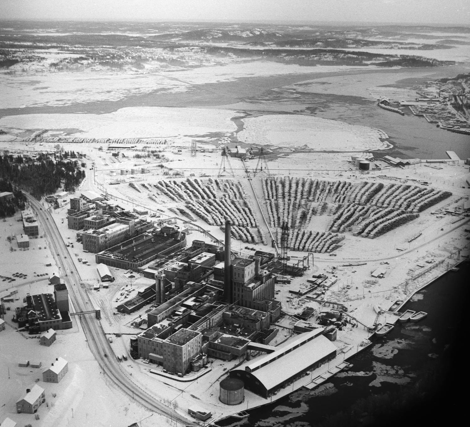 Sulphite paper mill owned by Mo & Domsjö AB in Alfredshem, Örnsköldsviks municipality, northern Sweden. Photo: ca 1957. If the photo is used outside Wikipedia, "Photo: Staffan Norstedt" or the equivalent in the relevant language shall be indicated next to it.